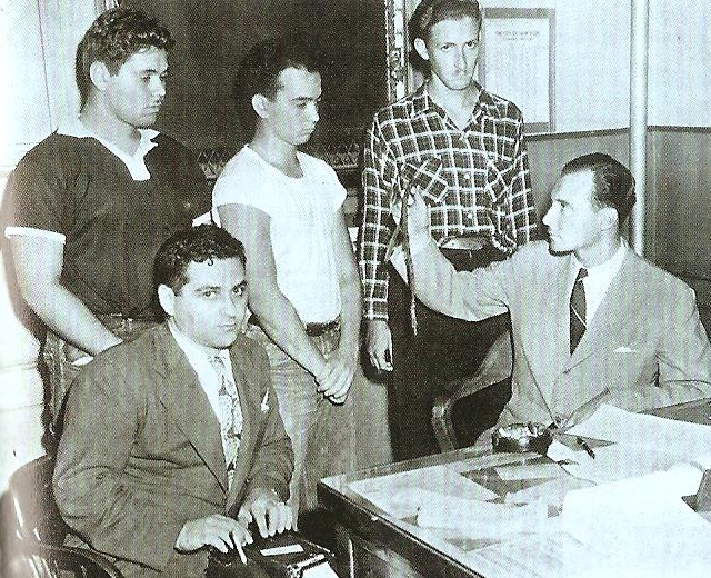 Brooklyn Thrill Killers, Asst DA holding up bullwhip used in crime